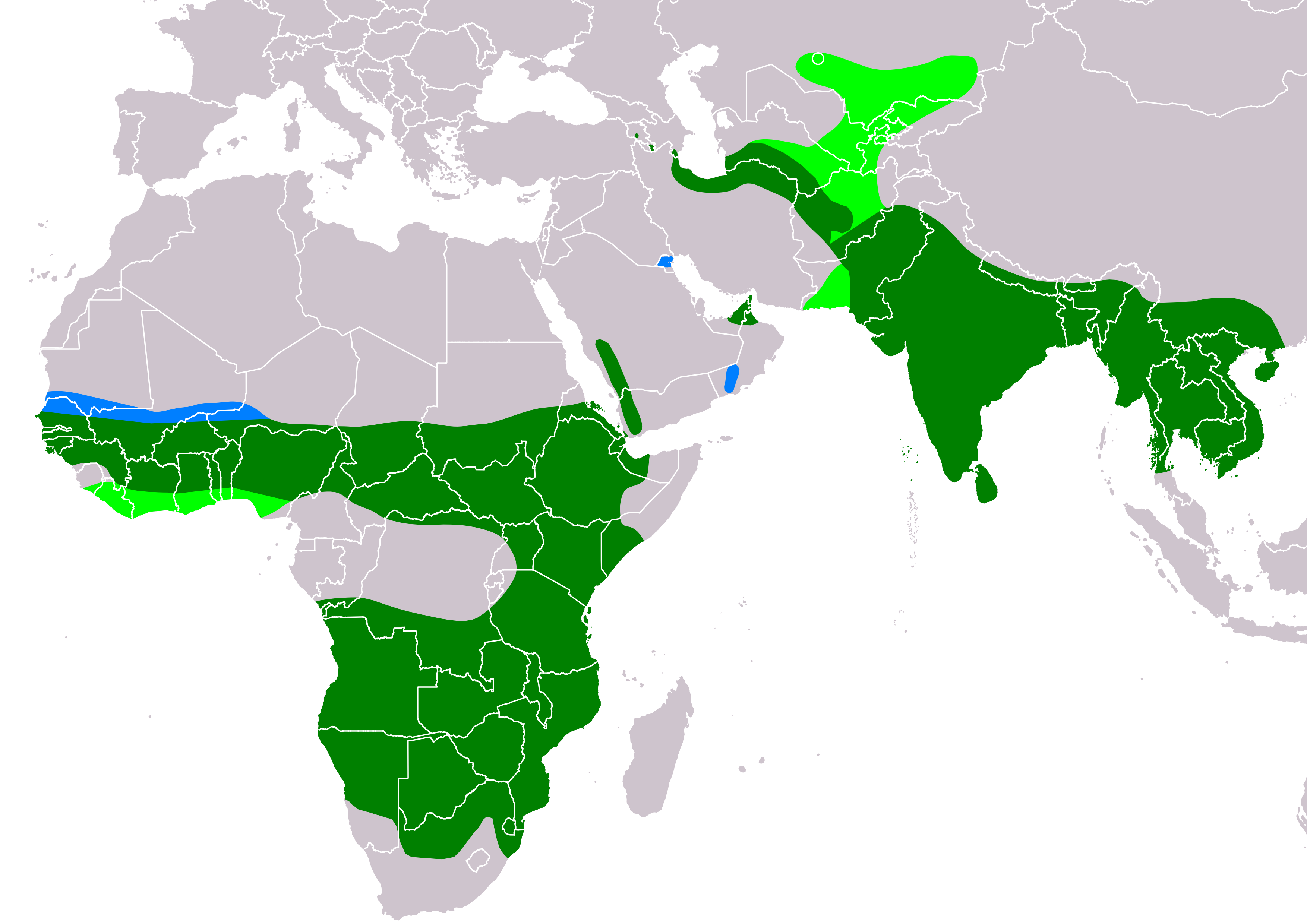 map of shikra (Accipiter badius) according to IUCN version 2018.2 , Legend: Extant, breeding (#00FF00), Extant, resident (#008000), Extant, non-breeding (#007FFF)